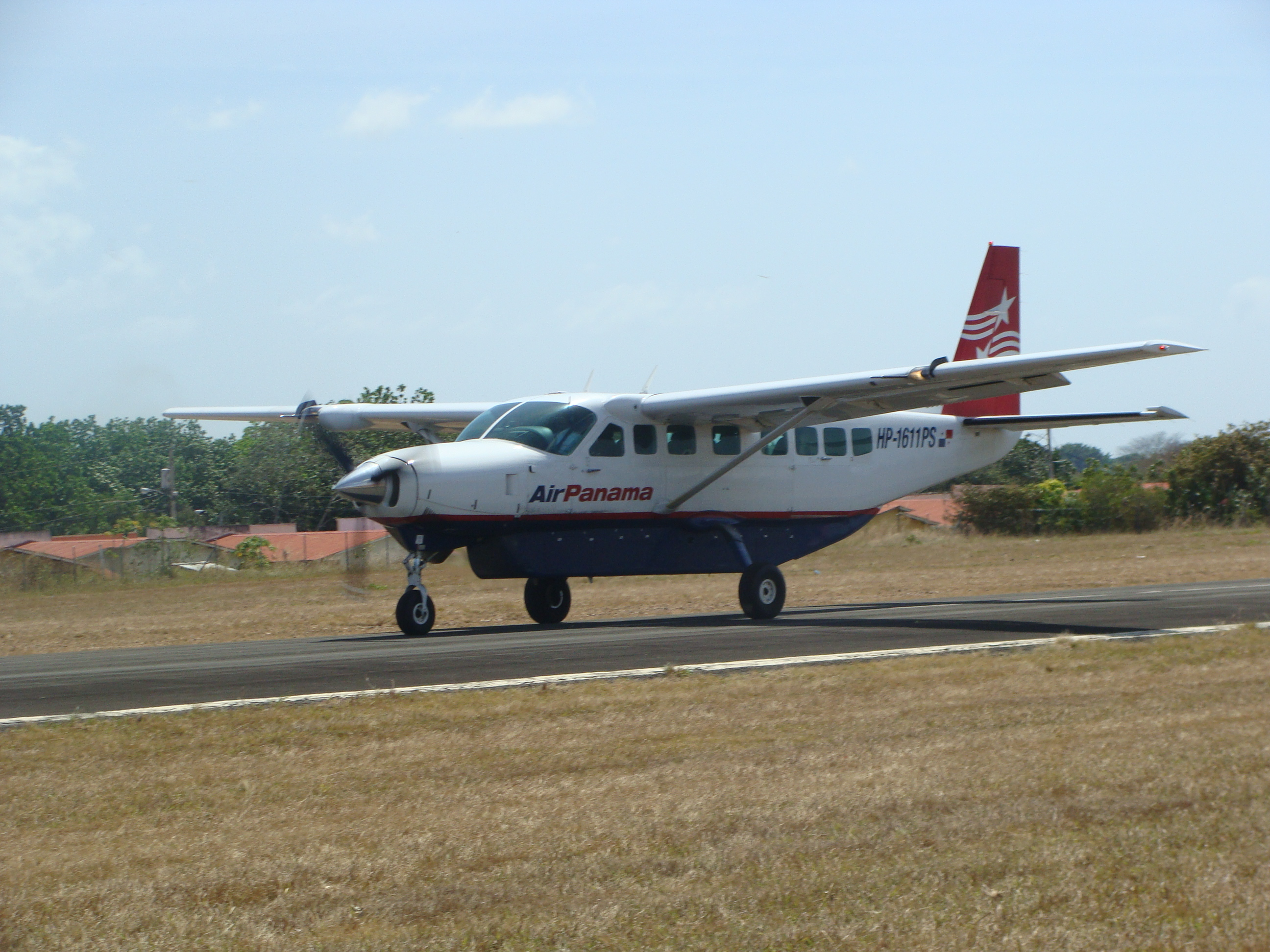 An Air Panama Cessna C-208 Caravan taxiing after landing at Penonomé Airport, in Coclé Province, Panama.